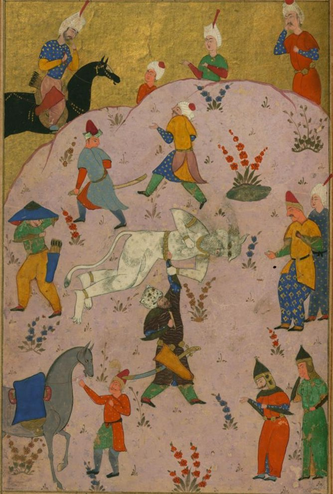 Rustam slays the Div-e-Sepid. Illustration from the Shahnameh